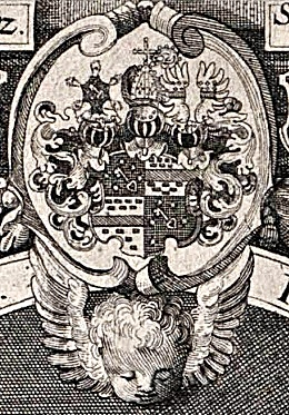 Wappen von Philipp Kratz von Scharfenstein (1540-1604), erwählter Bischof von Worms